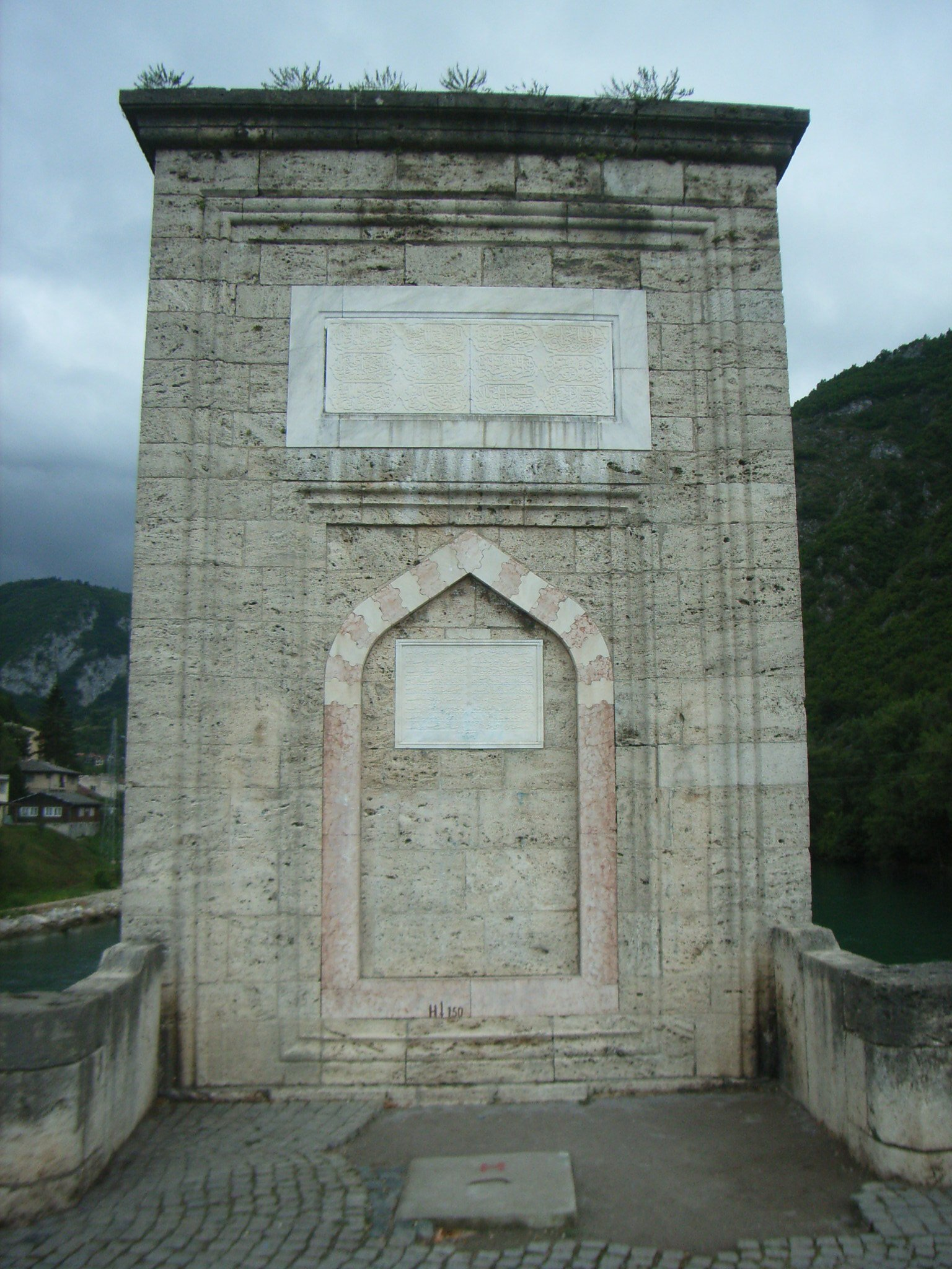 Višegrad in Bosnia and Herzegovina, center pile (Kapija) of the old bridge